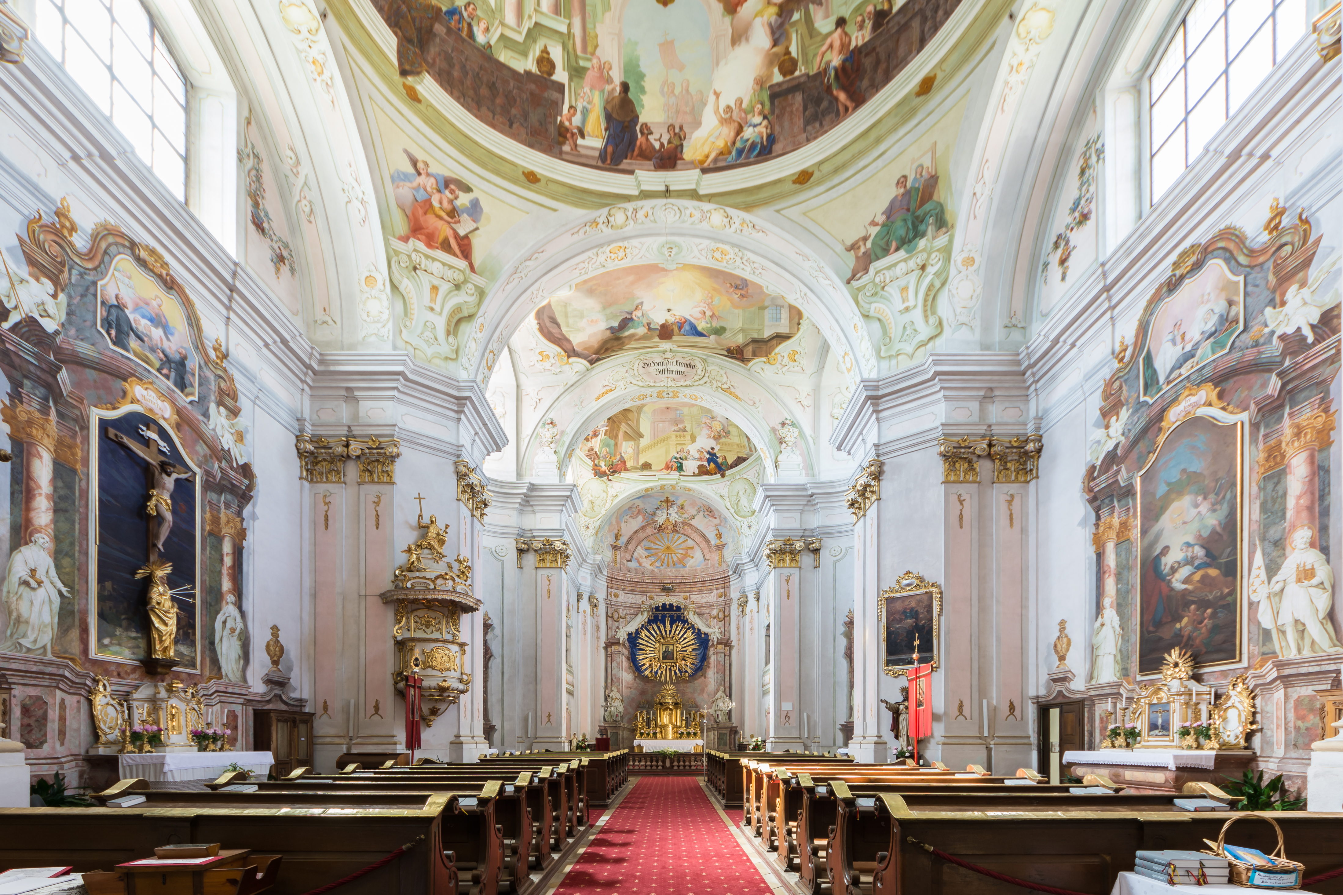 Interior of the pilgrimage church of Maria Langegg, Lower Austria